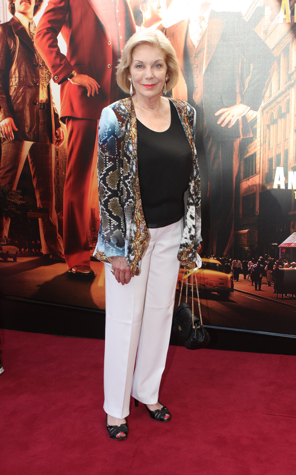 Anchorman 2 The Australian Premiere The Legend Continues